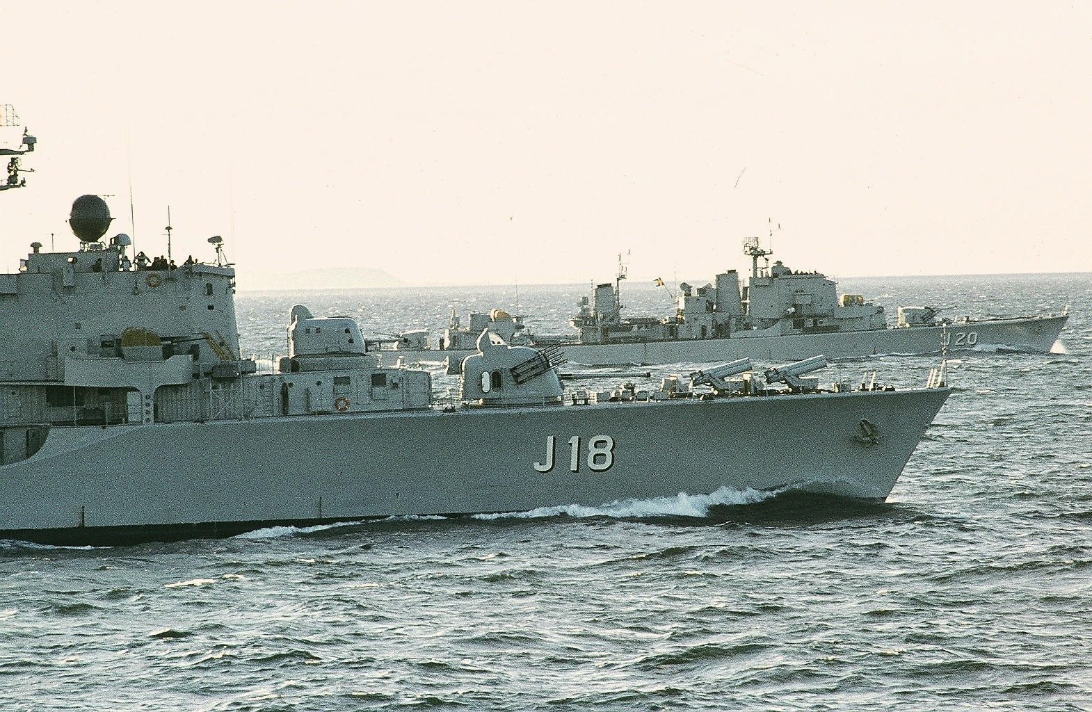 Picture of the Swedish destroyers HMS Halland (J18) and HMS Östergötland (J20).